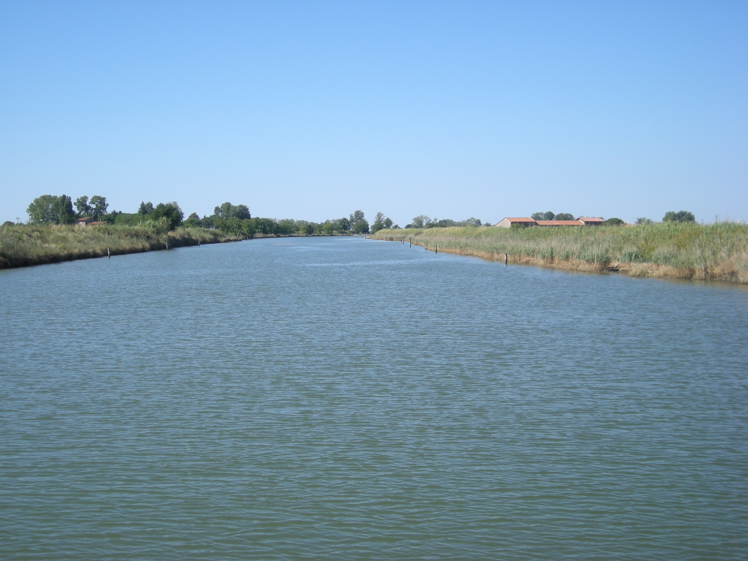 Natissa river in Aquileia (Italy)